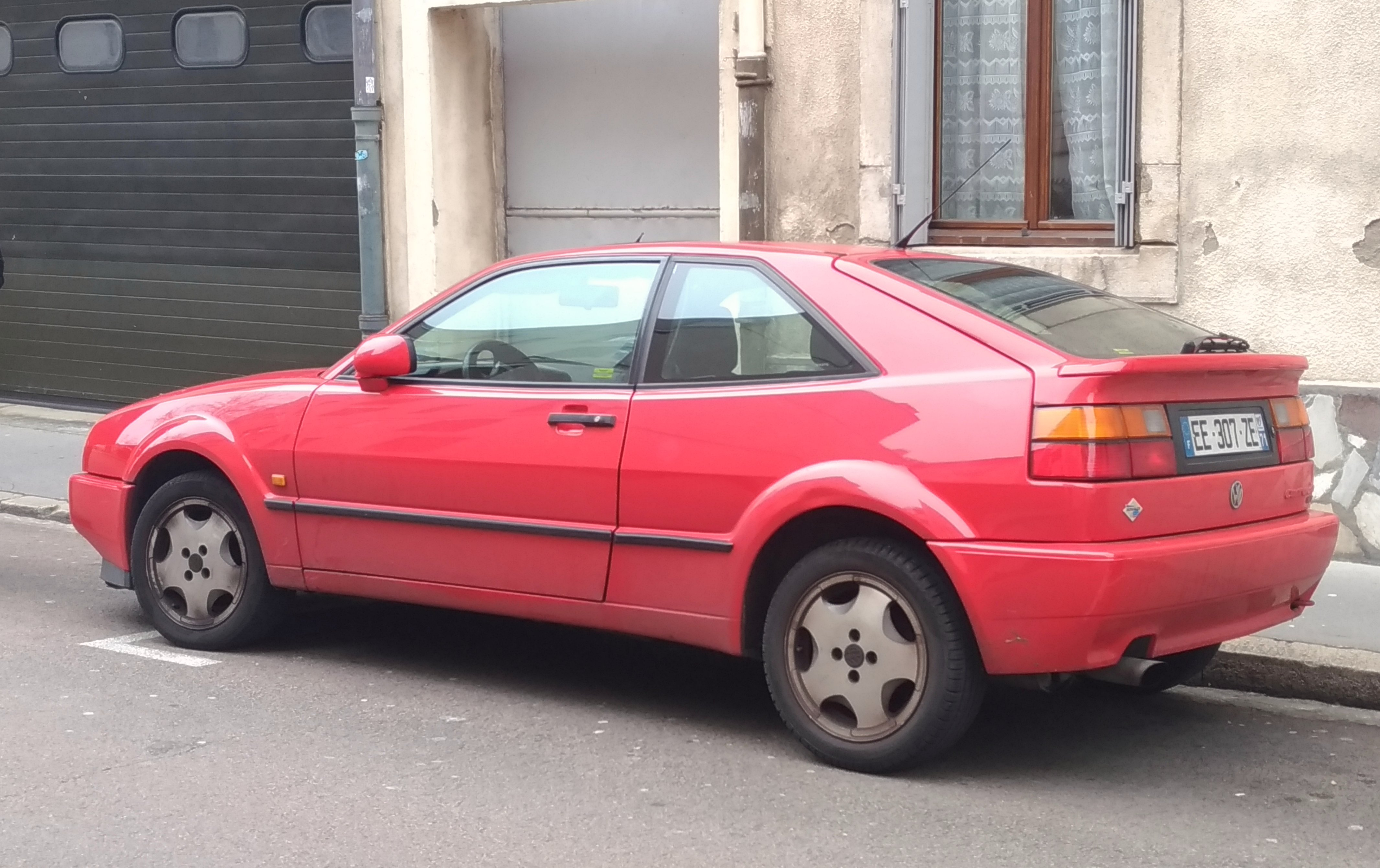 1992 VW Corrado (2.0i 136 hp) at Chalon sur Saône